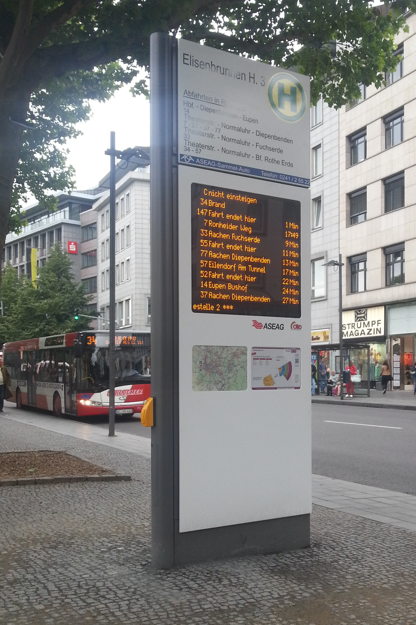 Dynamic passenger information (DPI) from ASEAG at the bus stop Elisenbrunnen H.3 in Aachen. The system is in operation since June 2013.